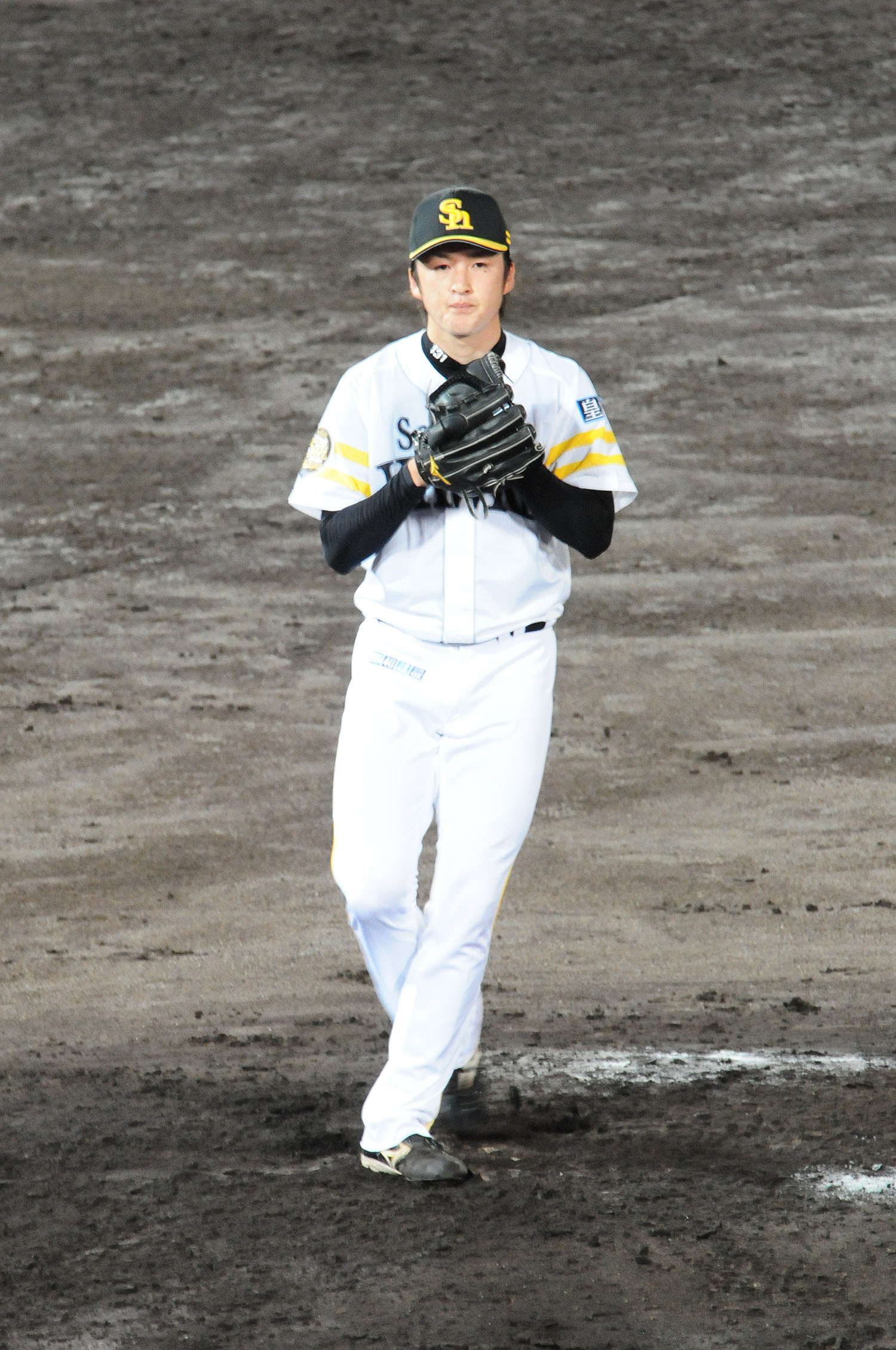 Yuya Iida, pitcher of the Fukuoka SoftBank Hawks, at Akita Prefectural Baseball Stadium.